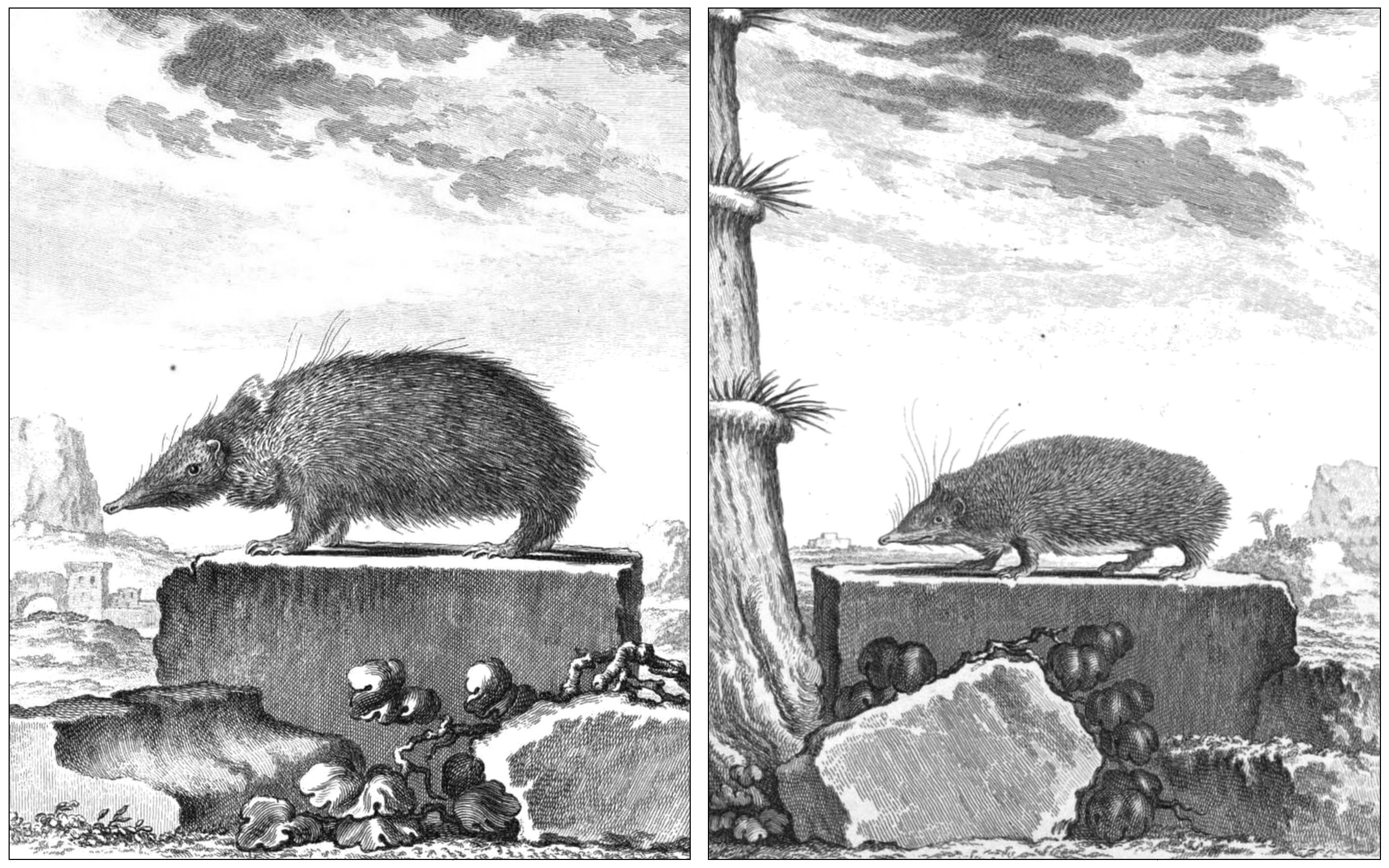 Illustration of the Tenrec and the Tandrec by Georges-Louis Leclerc de Buffon 1764, taken from Histoire naturelle, générale et particulière., Tome Douzième.